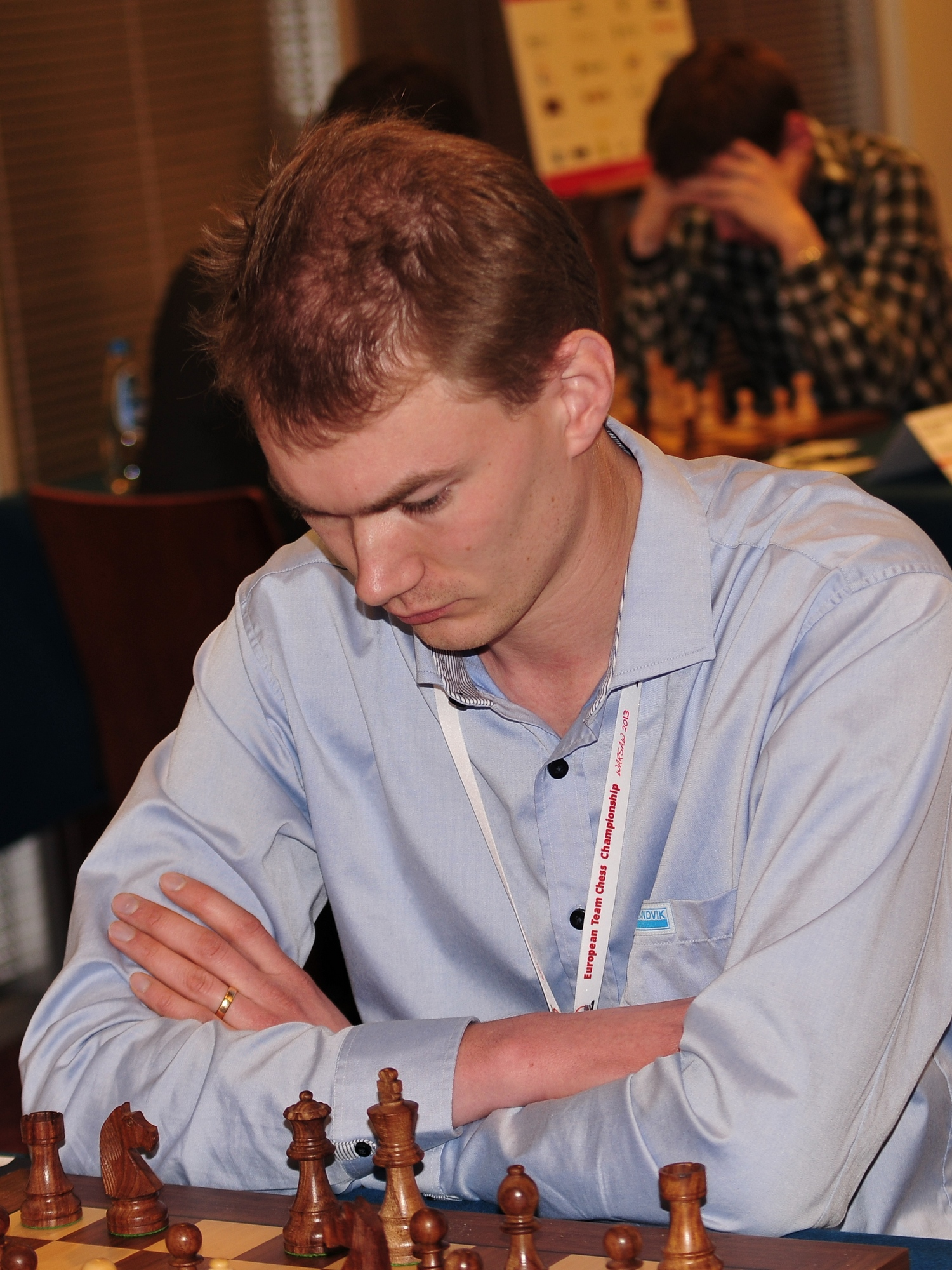 GM Emanuel Berg, European Chess Team Championship Warsaw 2013